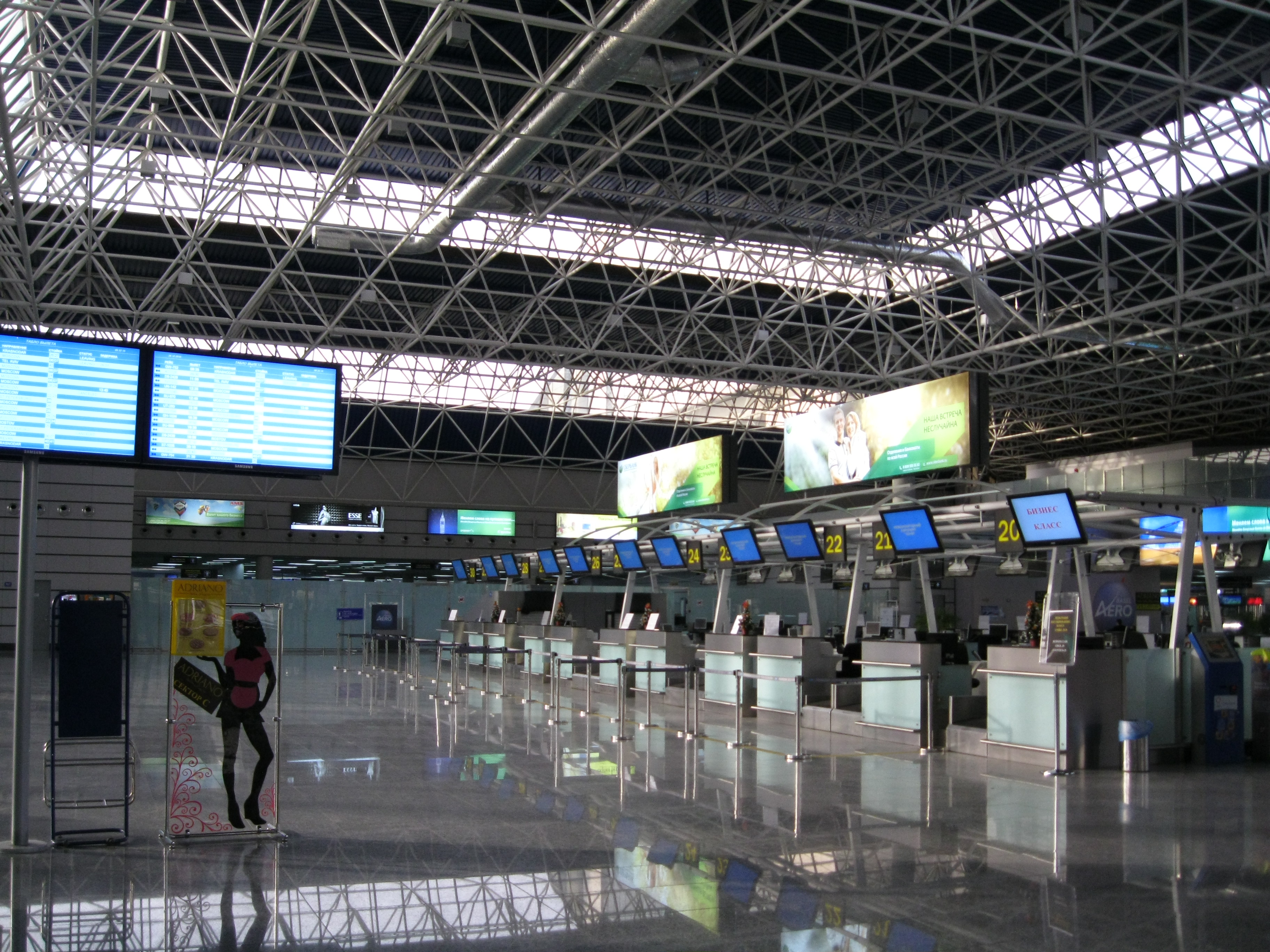 Sochi International Airport interior